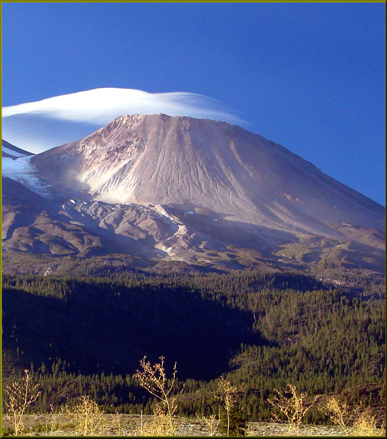 (1 in a multiple picture set) Getting closer to Mt. Shastina, it is obviously a cinder cone. Though almost as large as Mt. Shasta next to it, this formation is called a parasite cone because it came from a smaller vent on the side of the real volcano.